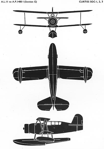 A U.S. Navy World War II era recognition drawing of the Curtiss SOC Seagull scout-observation aircraft, produced by the Air Intelligence Group (OP-16-1-V), Technical Air Intelligence Section.